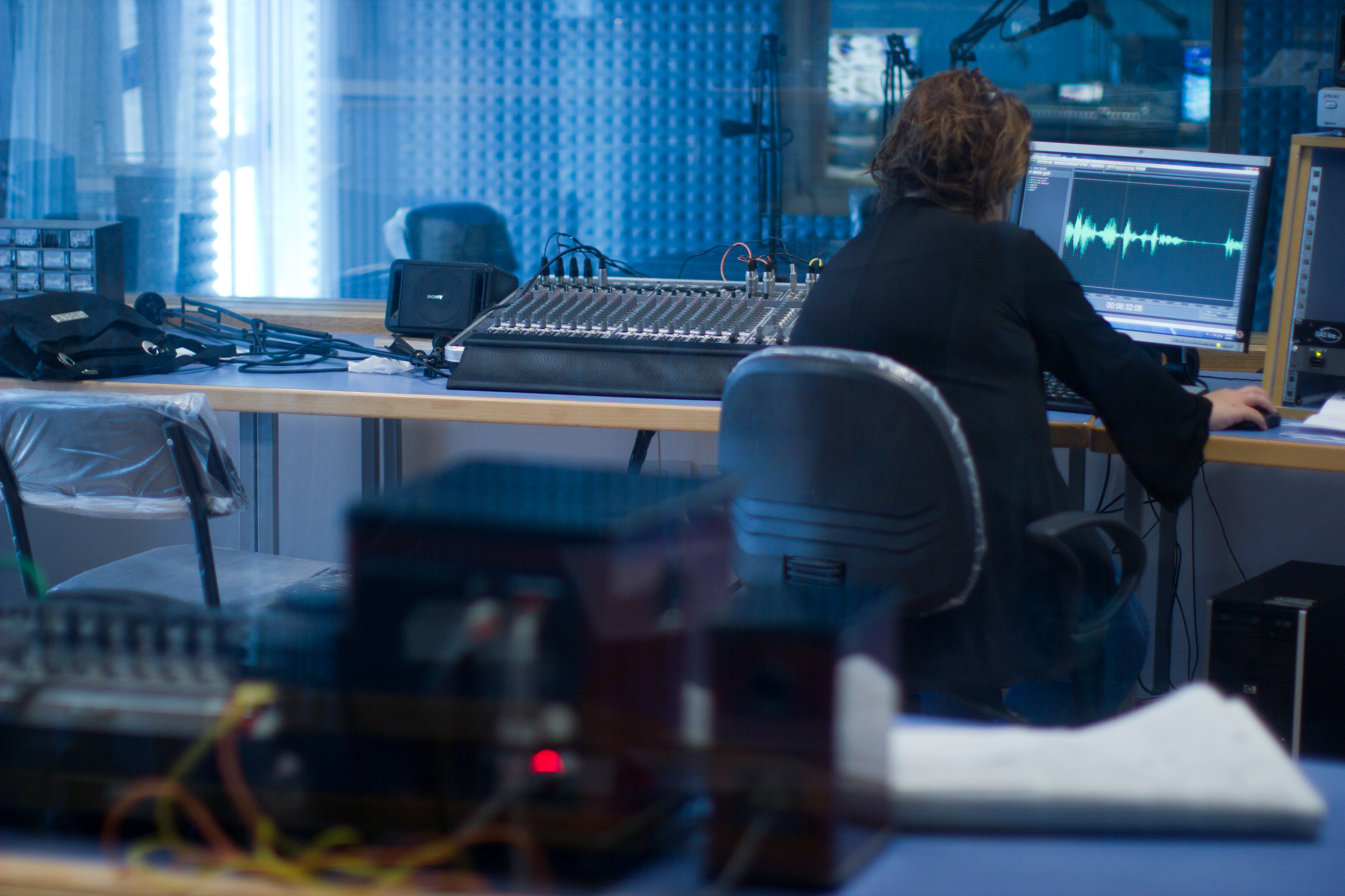 An-Najah University media room